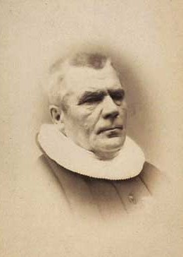 Peter Rørdam (1806-1883), Danish priest